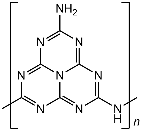 Structure of melon after C. E. Redemann (1939), showing one 5-amino-heptazine unit and the amino bridge between carbon 2 of each heptazine core and carbon 8 of the next core.